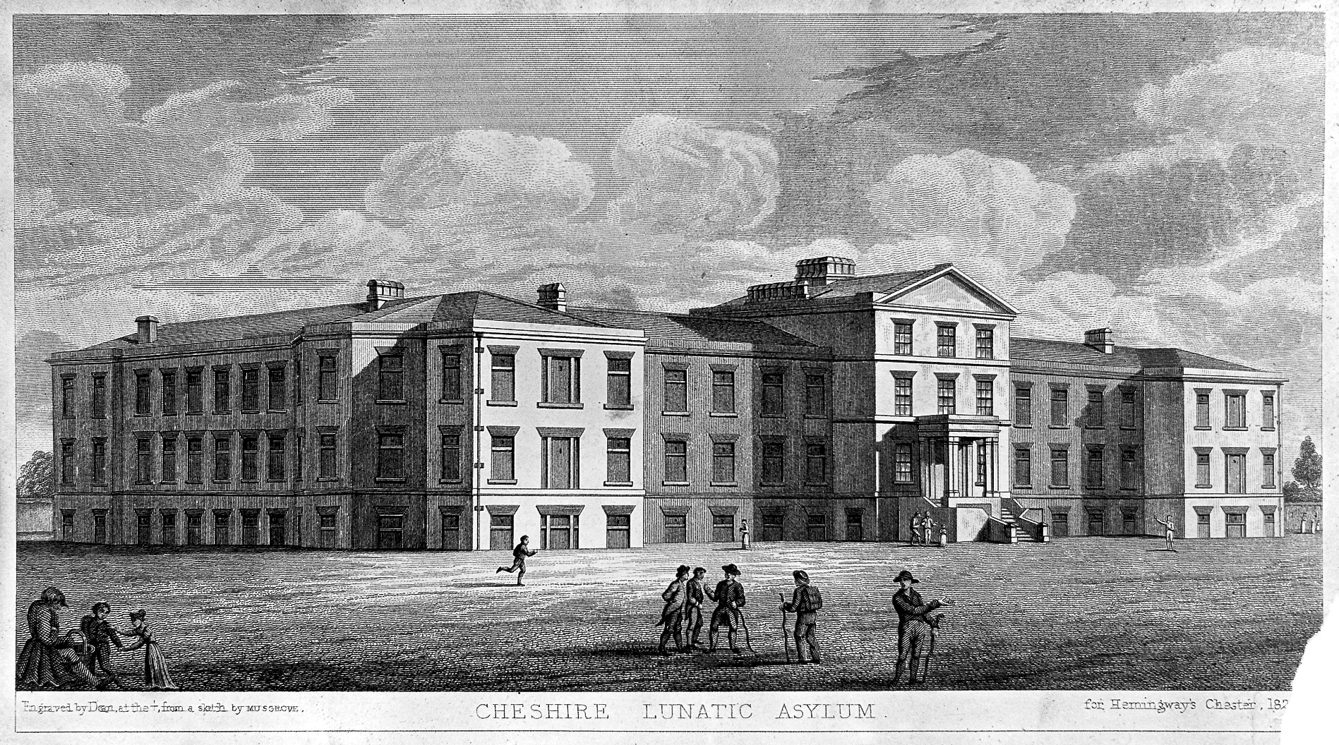 Cheshire Lunatic Asylum, Cheshire. Line engraving by Dean after Musgrove. Iconographic Collections Keywords: Cheshire County Lunatic Asylum (Cheshire, England); Musgrove; William Cole; T.A. Dean